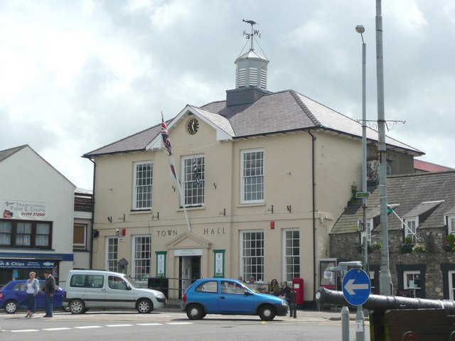 Town Hall, The Square, Fishguard / Abergwaun A dignified building of the early 19C, perhaps more so than when it was built as in 1950 shops were removed from the ground floor and replaced by windows matching those on the first floor. (Pevsner Architectural Guide) Note that the grid line goes through the door, so that half the front and most of the building is in SE9536.